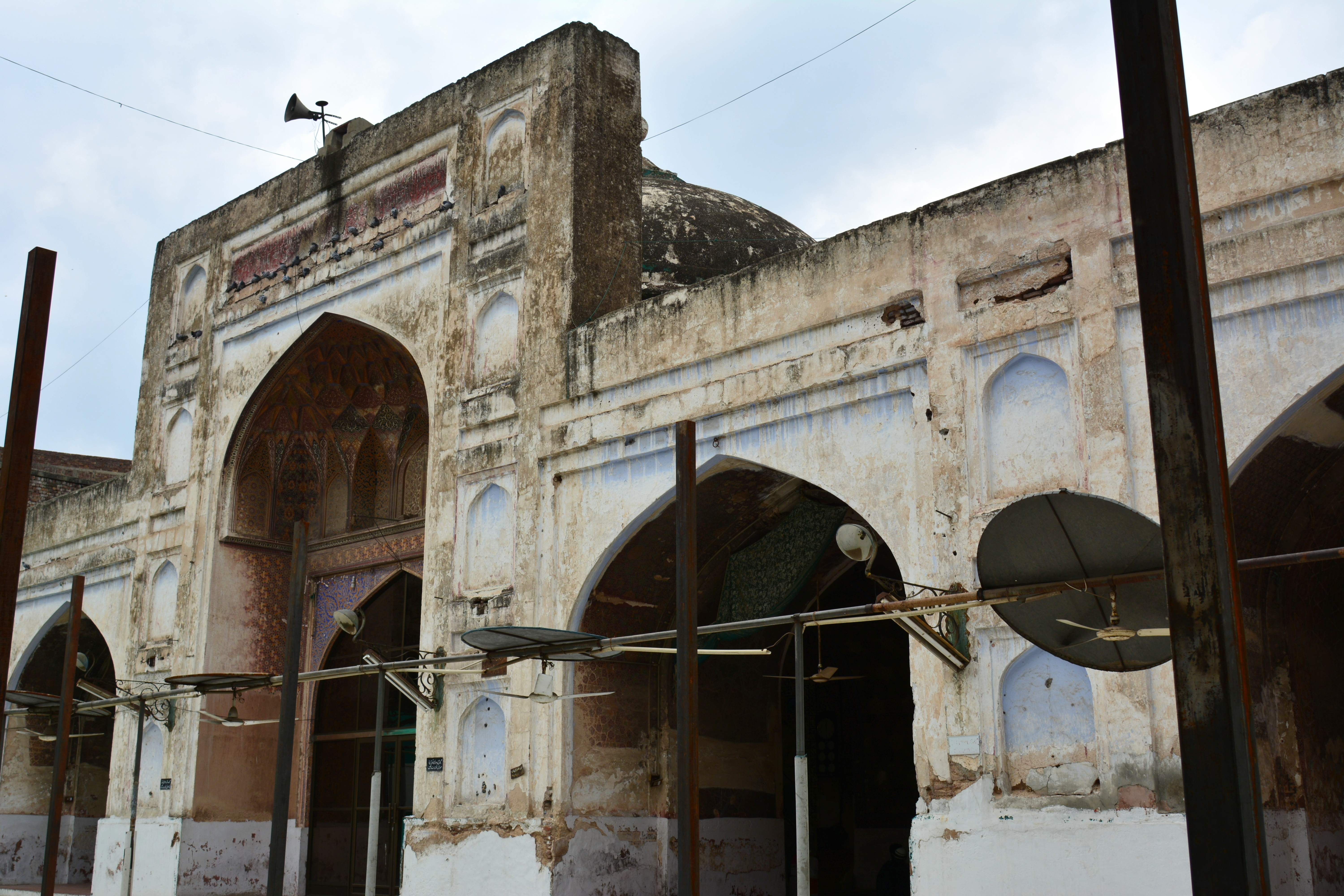 Facade of Begum Shahi Mosque This is a photo of a monument in Pakistan identified as the PB-68